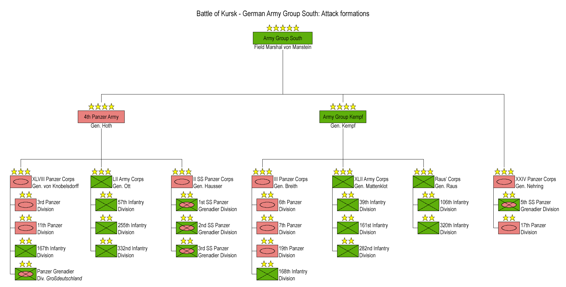 World War II - Battle of Kursk 1943 - German Army Group South - Order of Battle Diagram